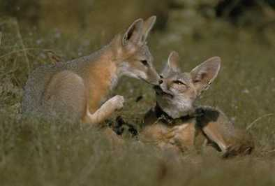 Vulpes velox